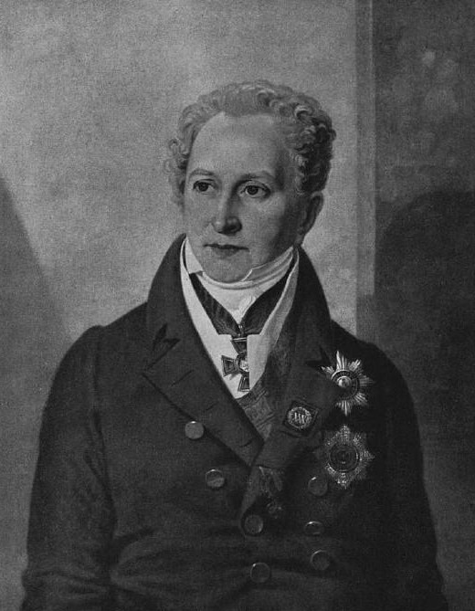 Алексей Захарович Хитрово (1776—1854)